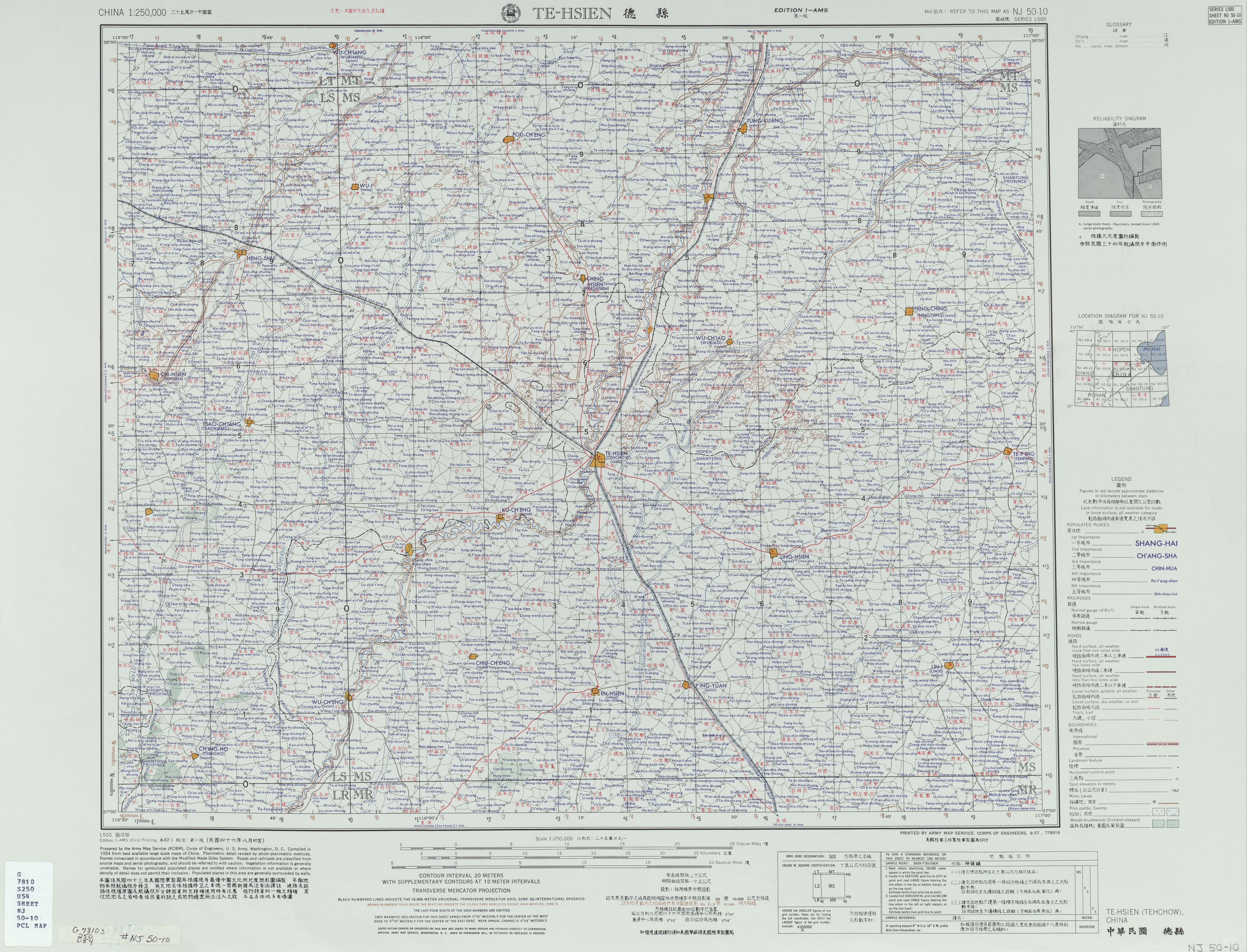 China AMS Topographic Maps